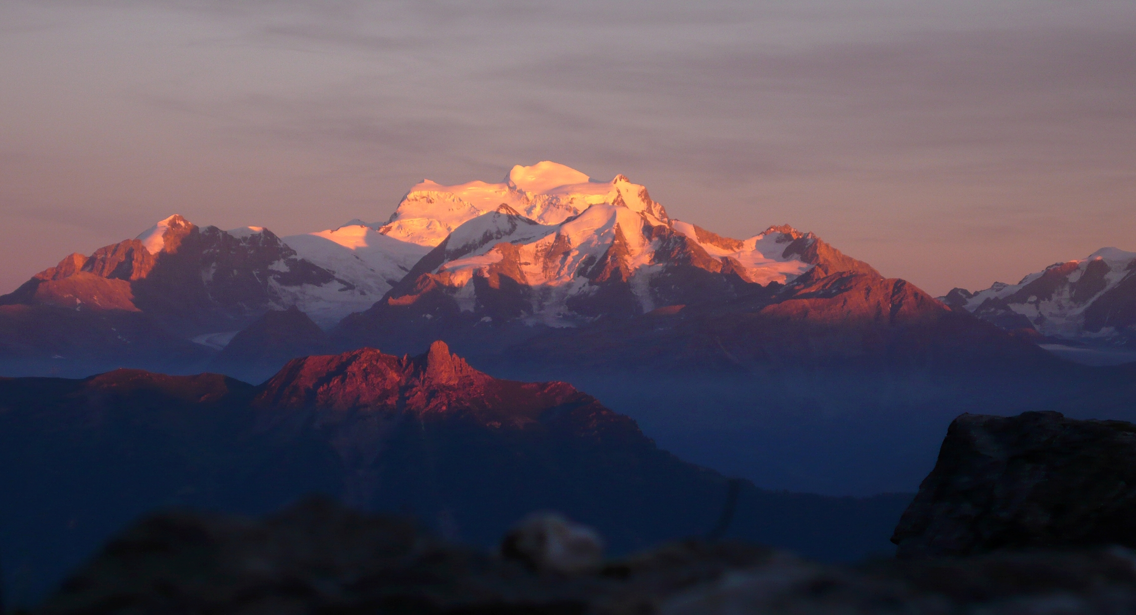 Grand Combin (from north)